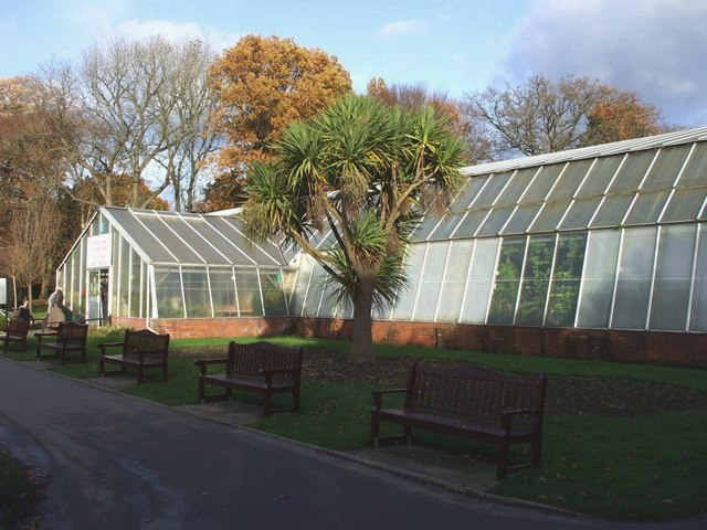 The Conservatory, Roath Park, Cardiff, Wales